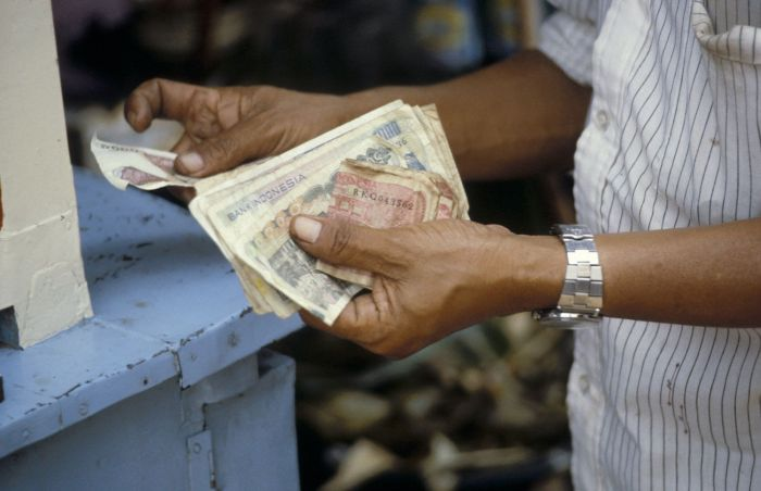 Indonesian money (rupiah)